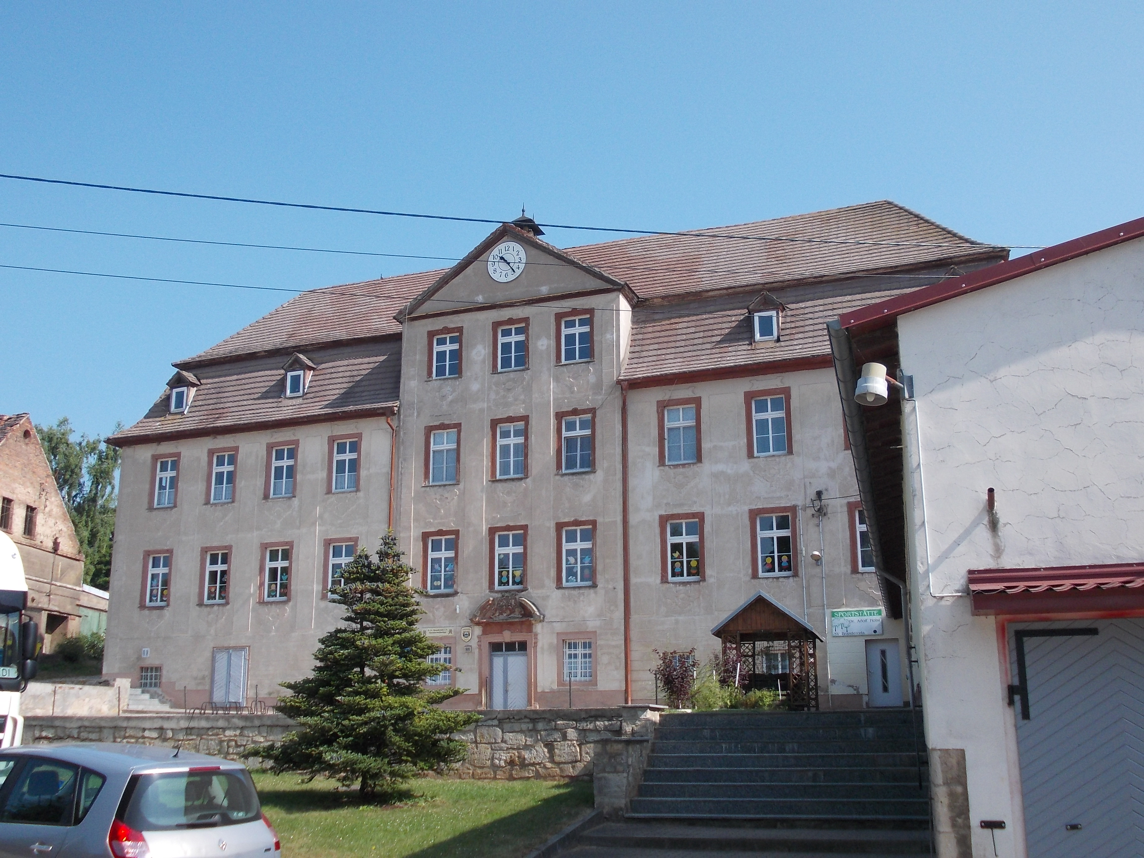 Manor house of Branderoda estate (Mücheln/Geiseltal, district: Saalekreis, Saxony-Anhalt)